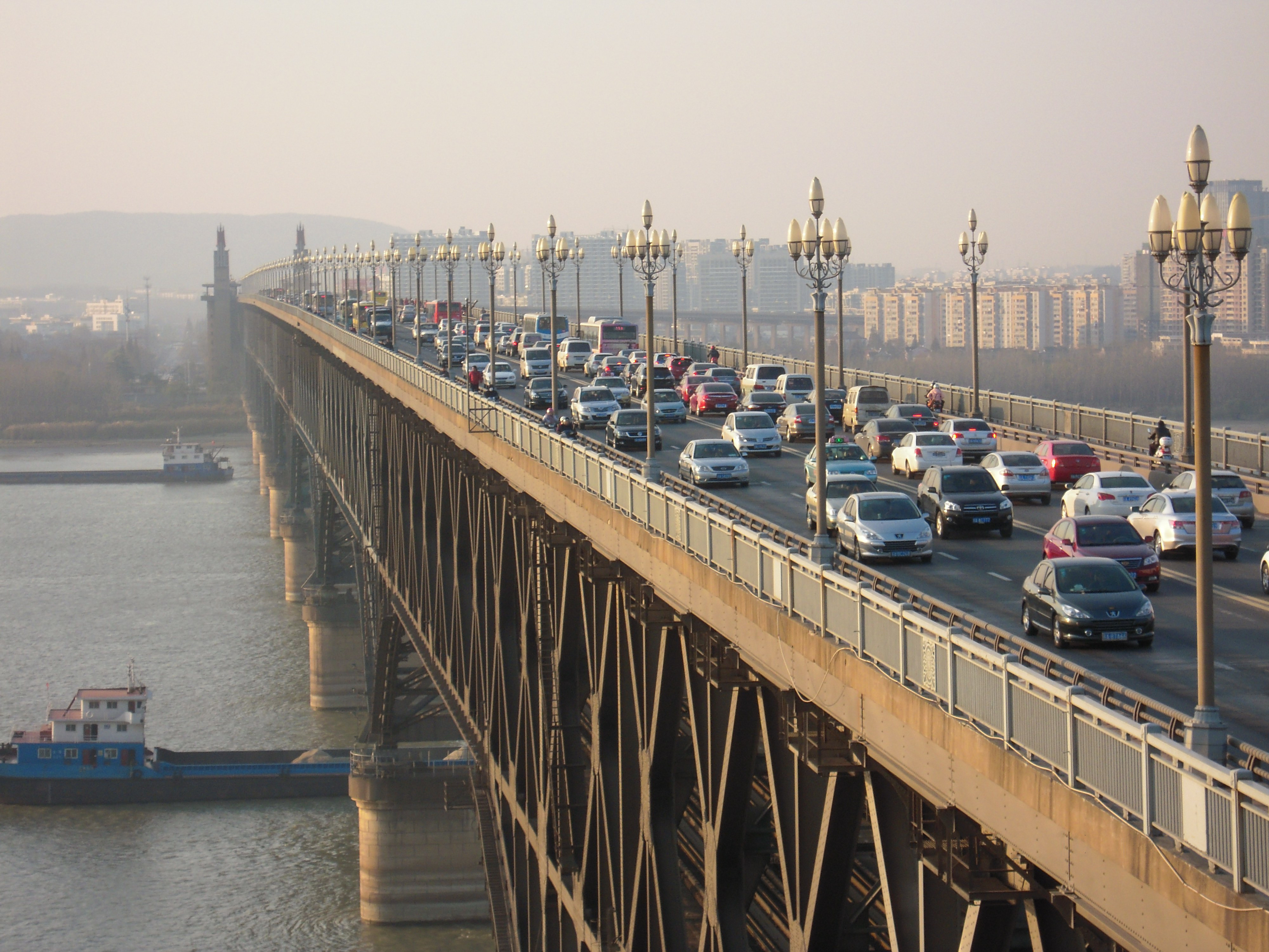 Nanjing Yangtze River Bridge - The first bridge which was completely built by Chinese over Yangtze River